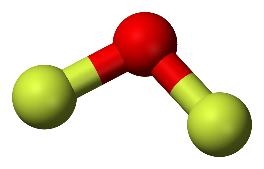 Ball-and-stick model of the oxygen difluoride molecule, OF2.